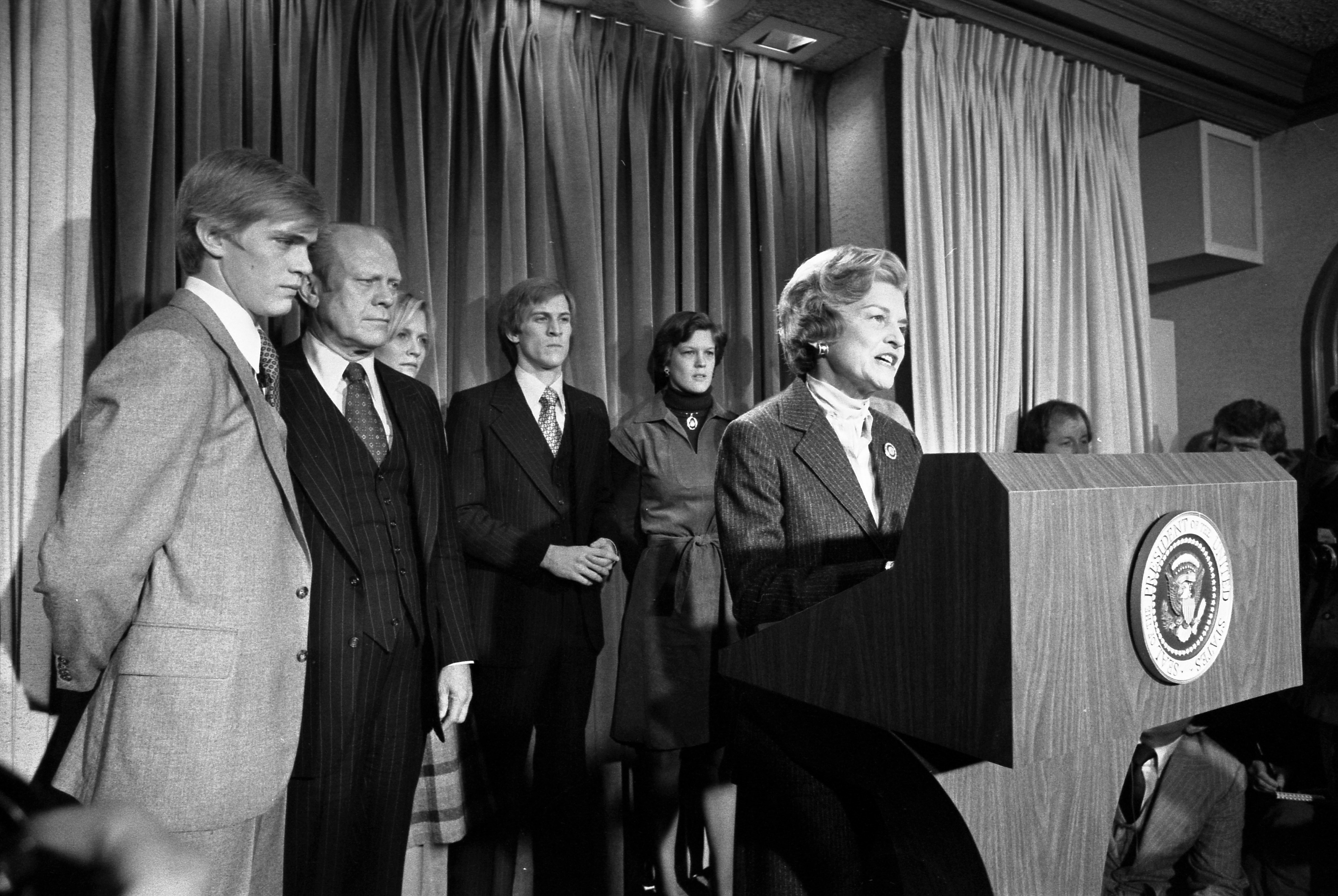 First Lady Betty Ford Reads President Gerald Ford's Concession Speech to members of the Press with (l-r) Steve, President Ford, Susan, Mike, and Gayle watching behind her.